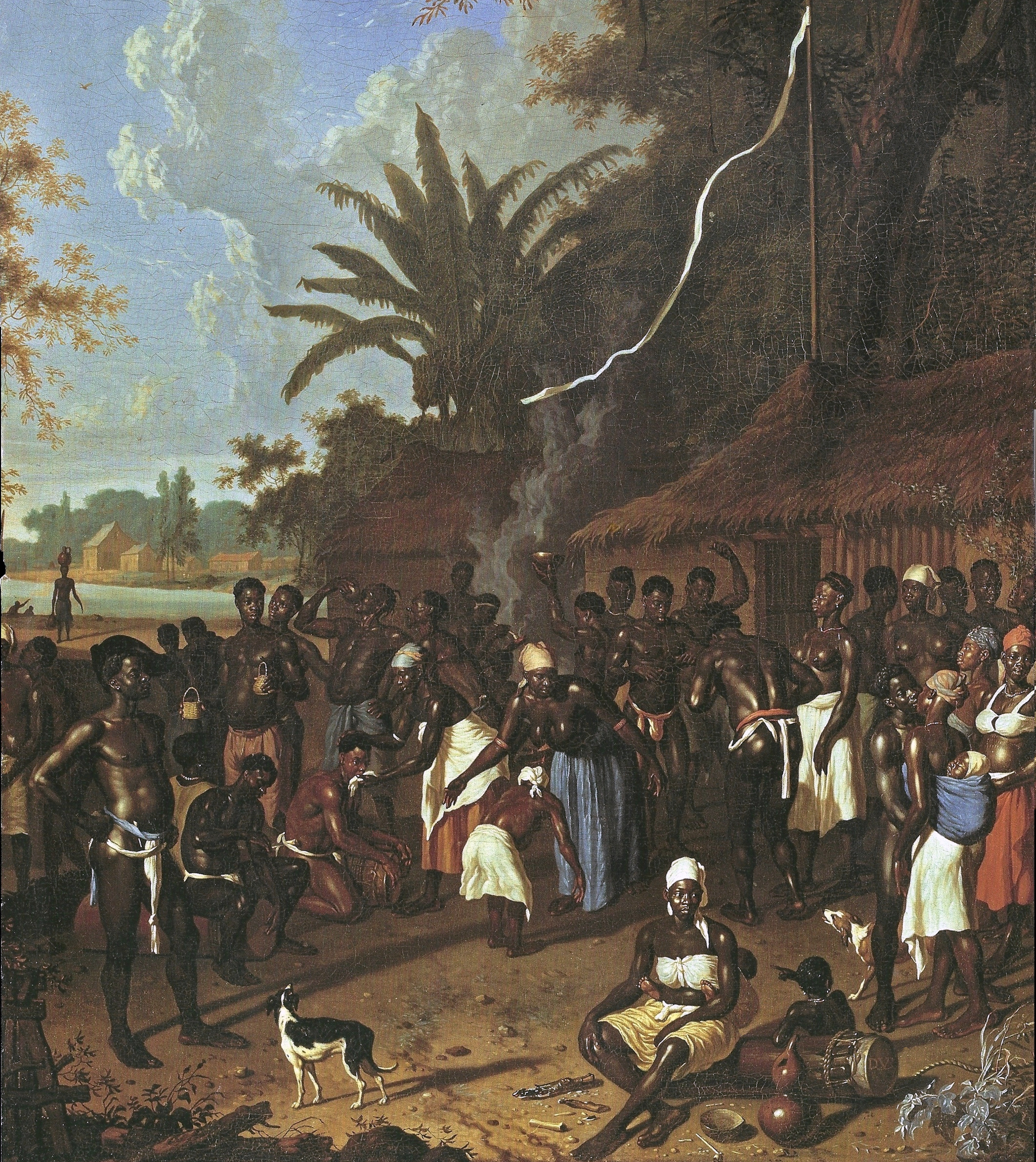 18th century painting of Dirk Valkenburg showing plantation slaves during a Ceremonial dance (1706-1708)